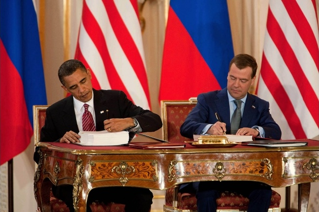 President Barack Obama and President Dmitry Medvedev of Russia sign the New START Treaty during a ceremony at Prague Castle in Prague, Czech Republic, April 8, 2010. (Official White House Photo by Chuck Kennedy)